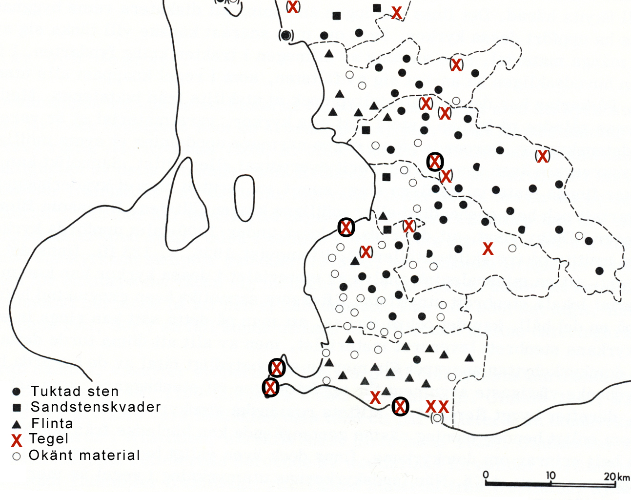 Map of building material in medieval churches in south west of Sweden.